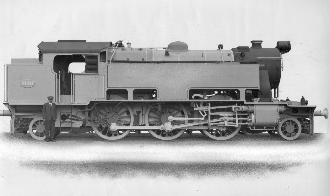 Vulcan Foundry works photo of Indian locomotive class WV tank locomotive no 2120 (side view).